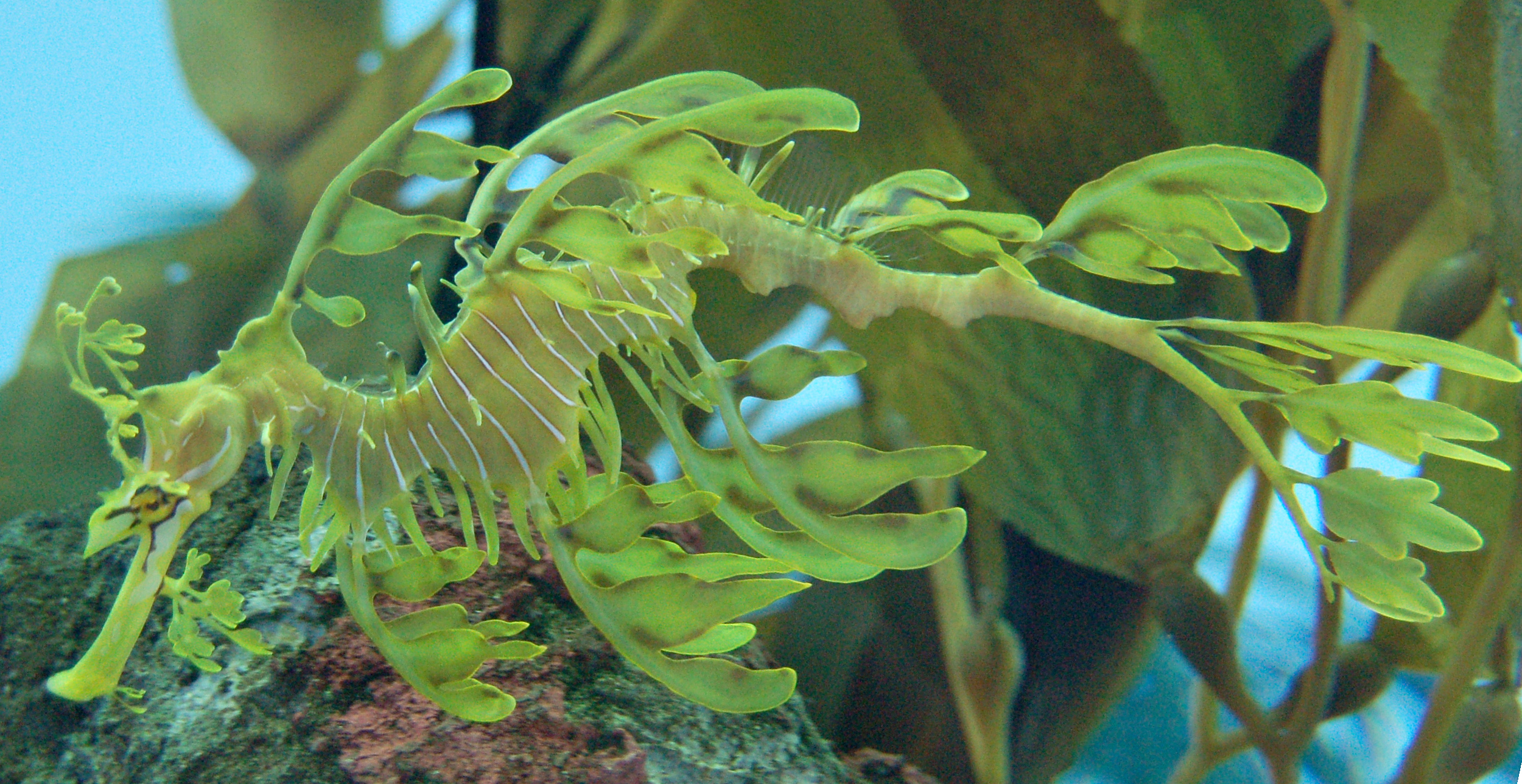 A photograph of Leafy Seadragonen (Phycodurus eques en ). Photo taken at the Pittsburgh Zoo.